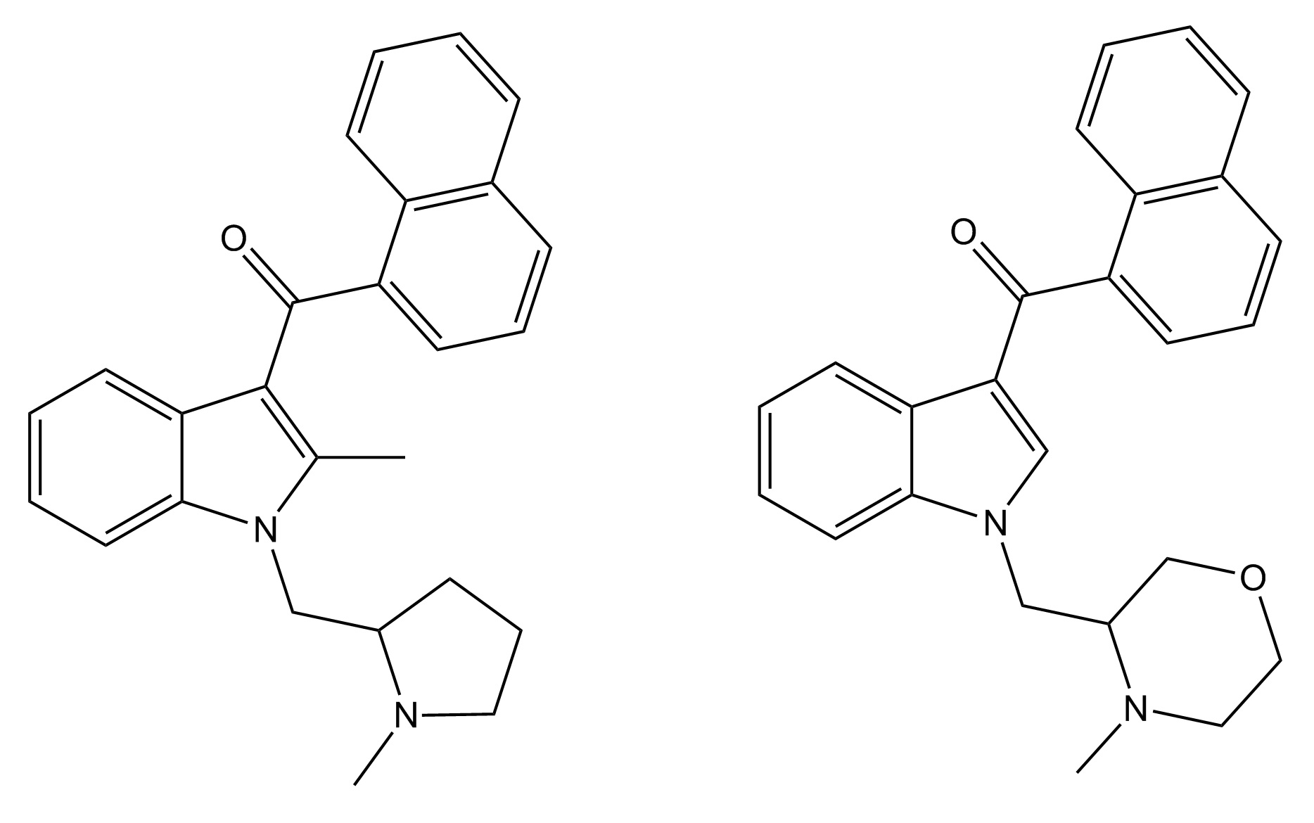 Structure of two 1-heterocyclic indole cannabinoids related to AM-1220